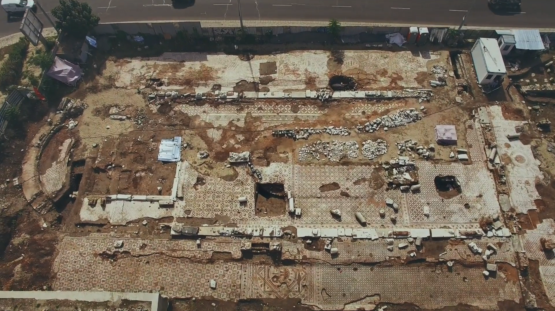 Panoramic view of the excavated mosaics of the Bishop's basilica of Philippopolis